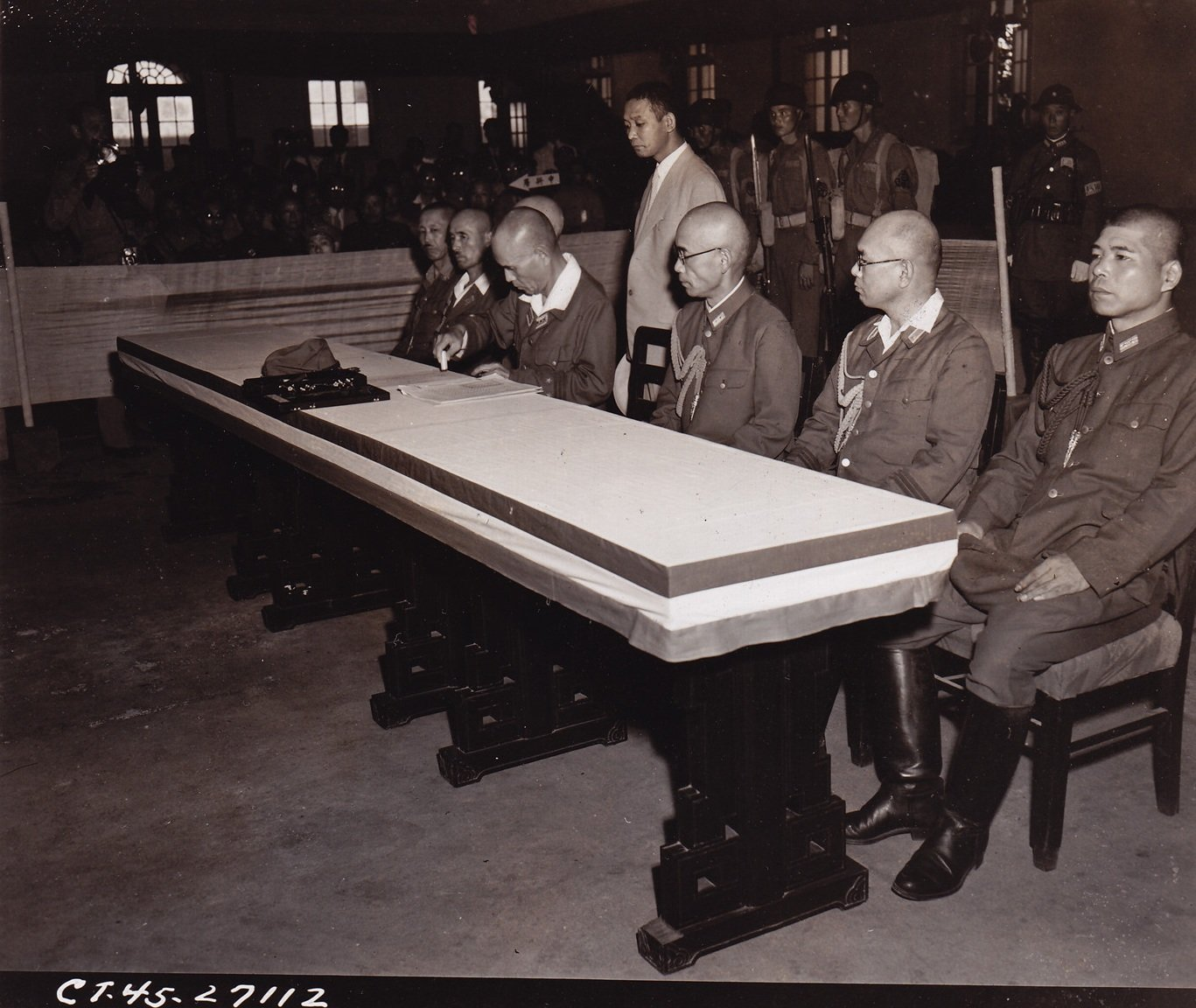 Japanese delegation at the Surrender of Japan in Nanjing